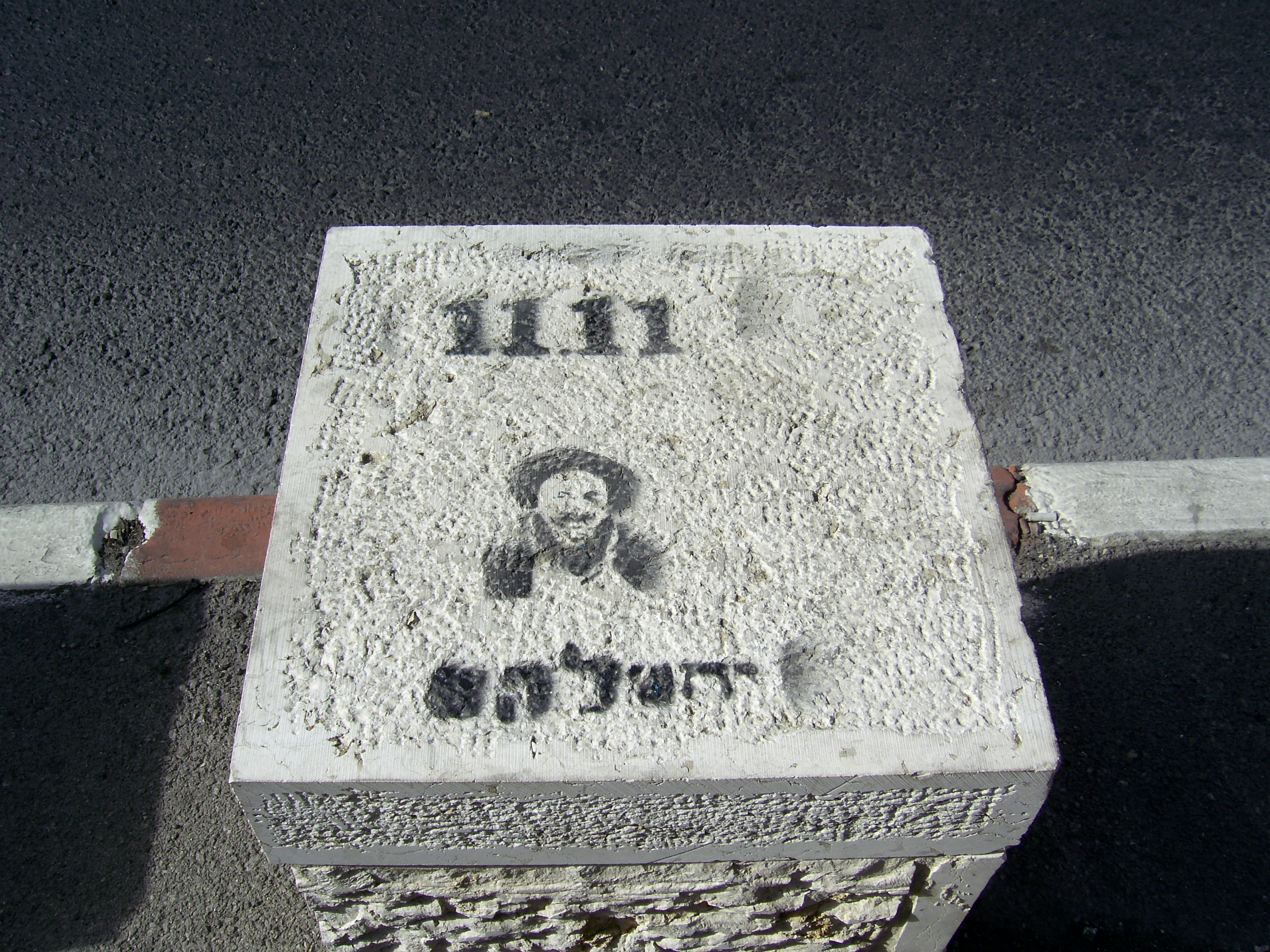 Uri Lupolianski, Mayor of Jerusalem In office 16 February 2003 – 11 November 2008